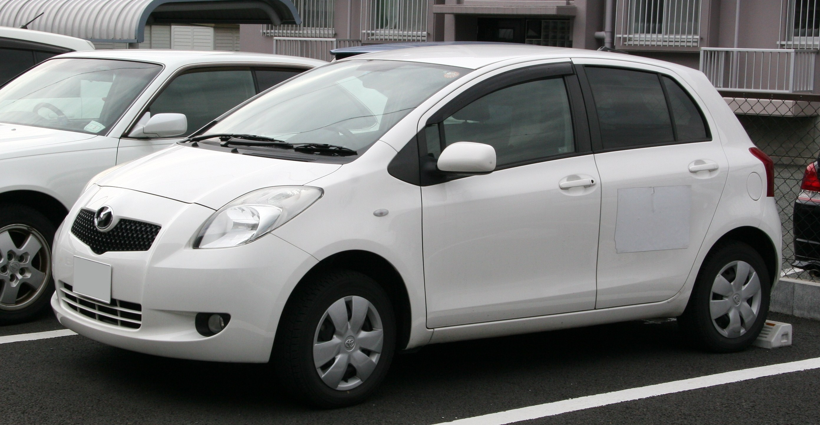 Toyota Vitz